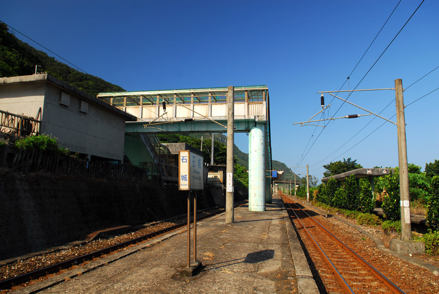 ShihCheng Station is a small local train station of Yilan Line, part of Taiwan's eastern rail line. It's located within the boundary of TouCheng Town, YiLan County. This photo shows the platforms and skybridge of the station.